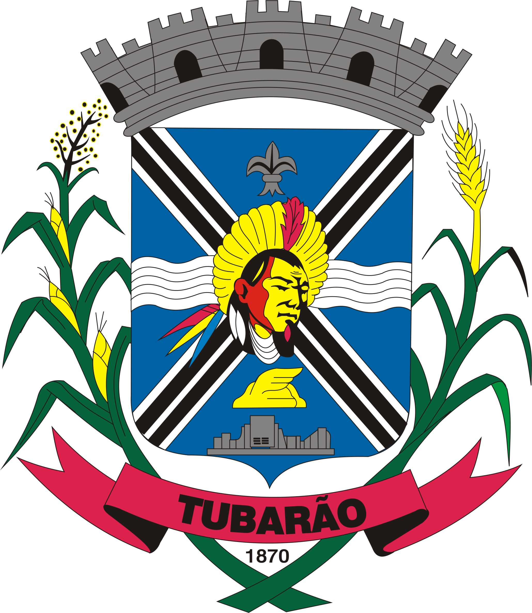 City of Tubarão seal